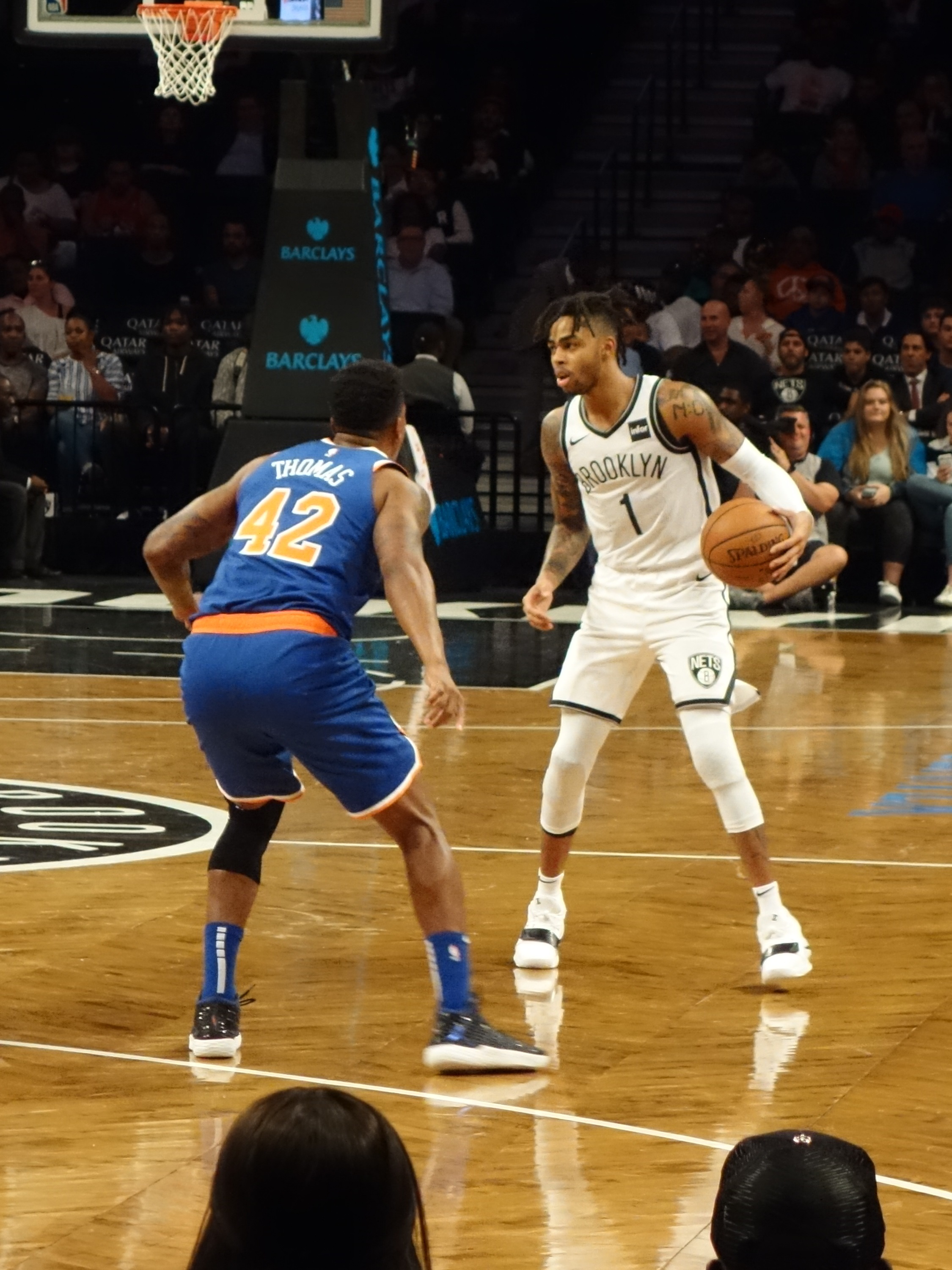 Nets guard D'Angelo Russell guarded by Knicks forward Lance Thomas during the first quarter of the NBA Preseason game between the Brooklyn Nets and the New York Knicks at the Barclays Center on October 3, 2018.